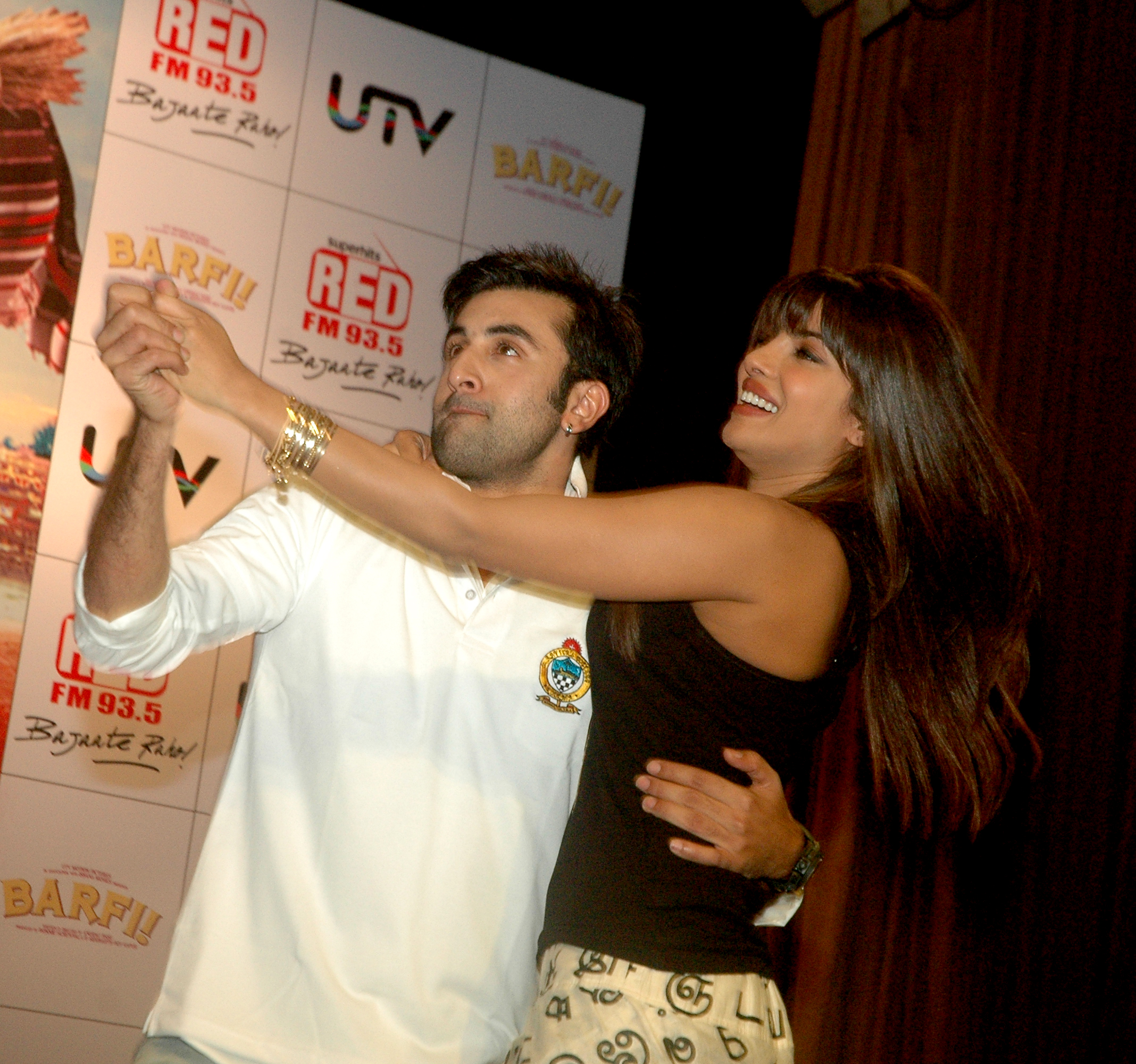 Barfi promotions at St.Xaviers College, Kolkata